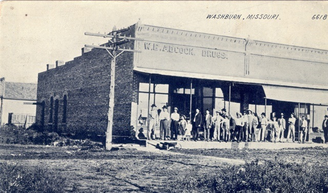 This 1910 image shows the W.B. Adcock Drug Store, which was constructed on the northwest the corner of South and Main streets in Washburn, Missouri. The doors on the side were for the Washburn Post Office. The building still stands and is now used as the Washburn Community Center.